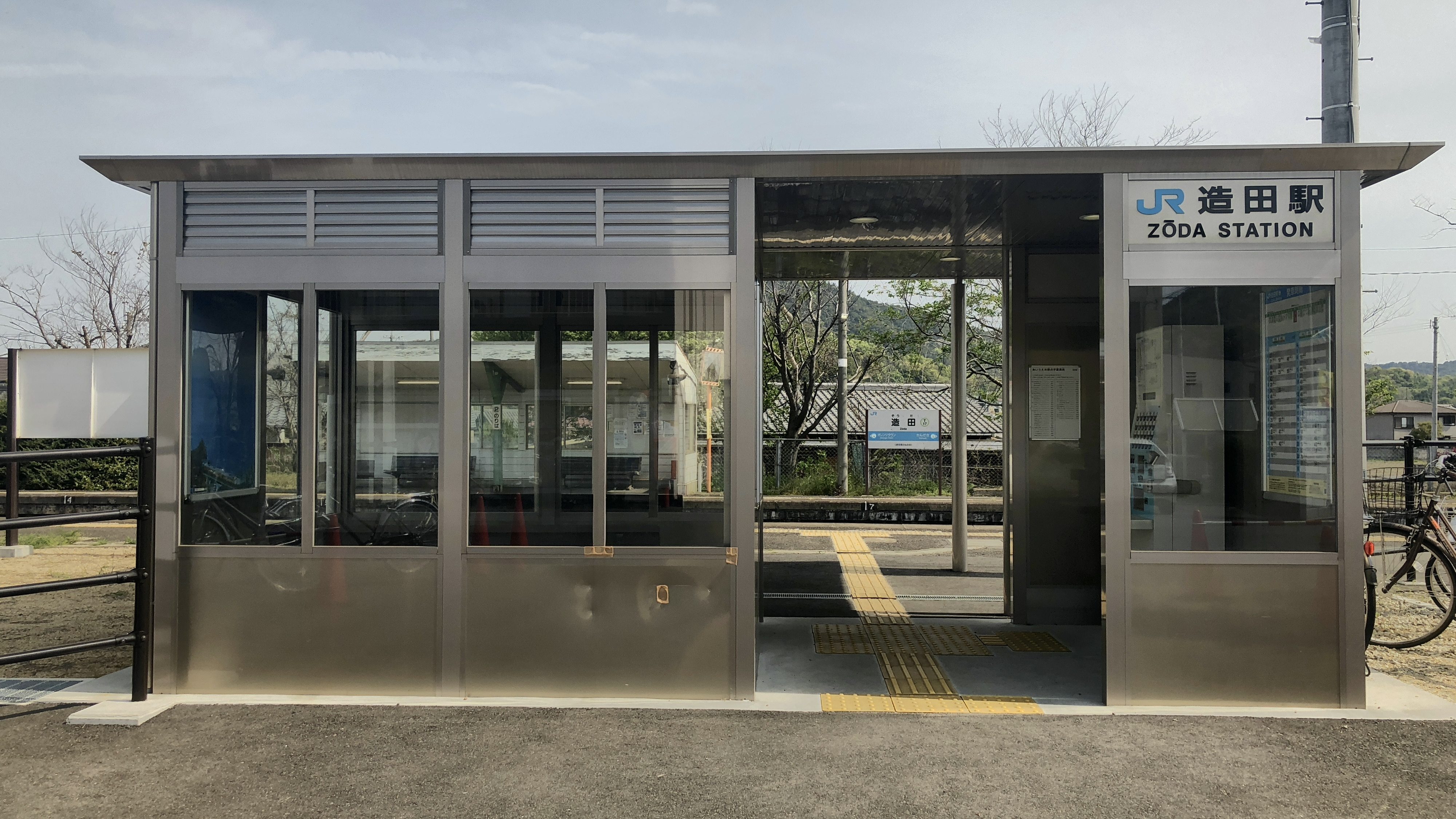 Shikoku Railway Company Kōtoku Line Zōda StationStation building. Shot on April 14, 2018.．